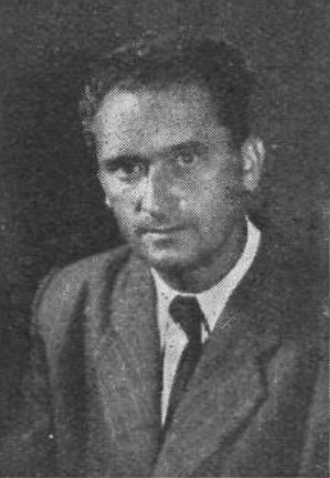 Photographic portrait of Ivan Šumljak, published in 1959 at his 60th anniversary in the mountaineering journal Planinski vestnik.